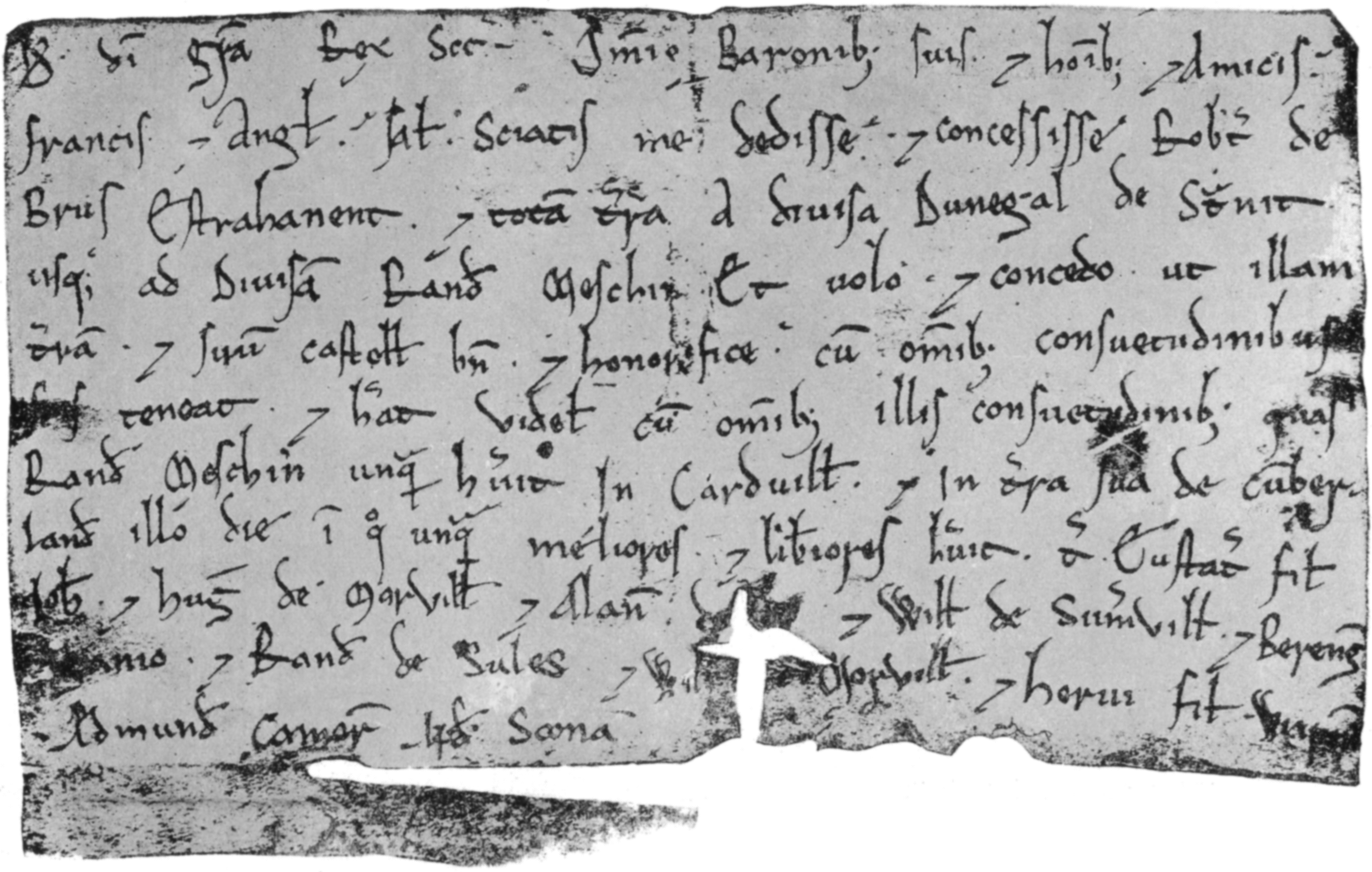 Charter of David I, King of Scotland to Robert de Brus concerning the lordship of Annandale.